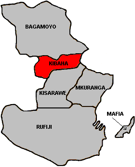 Created by Andrew Coe